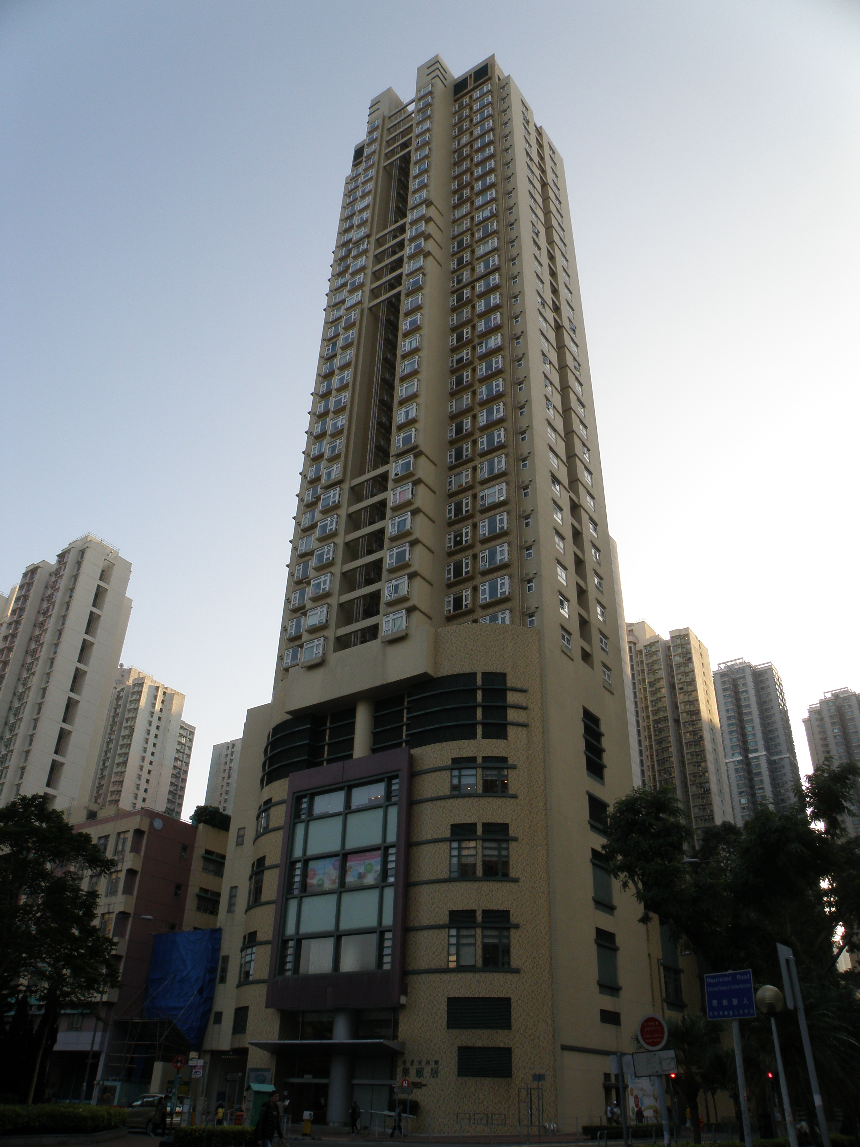 Jolly Place in Tseung Kwan O, Hong Kong.